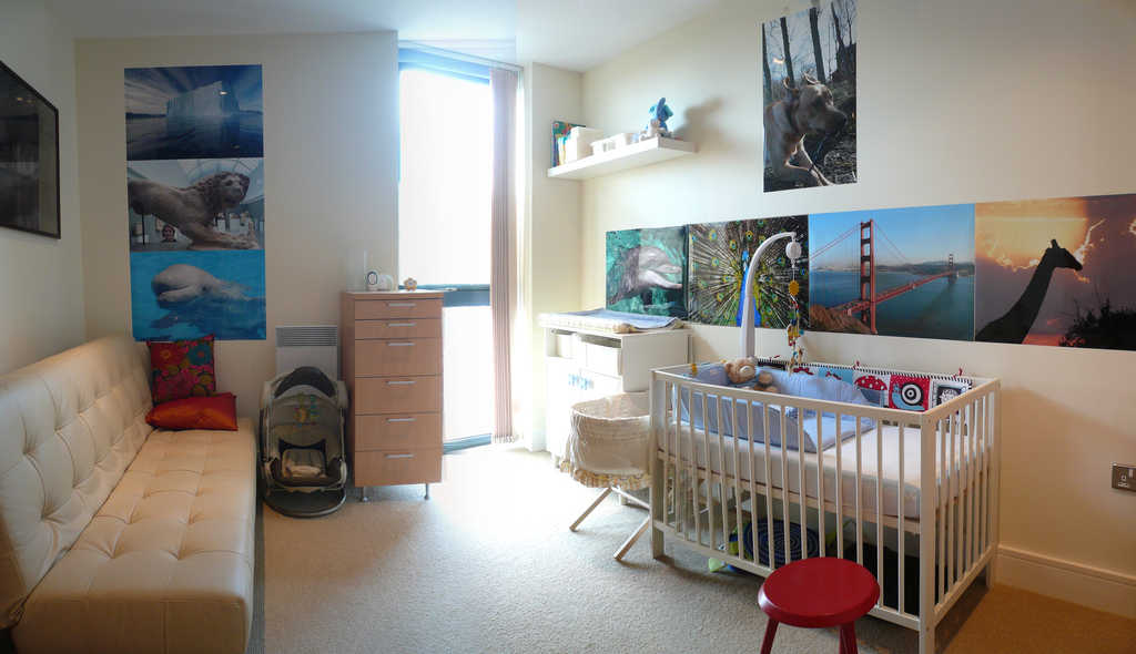 Baby nursery room